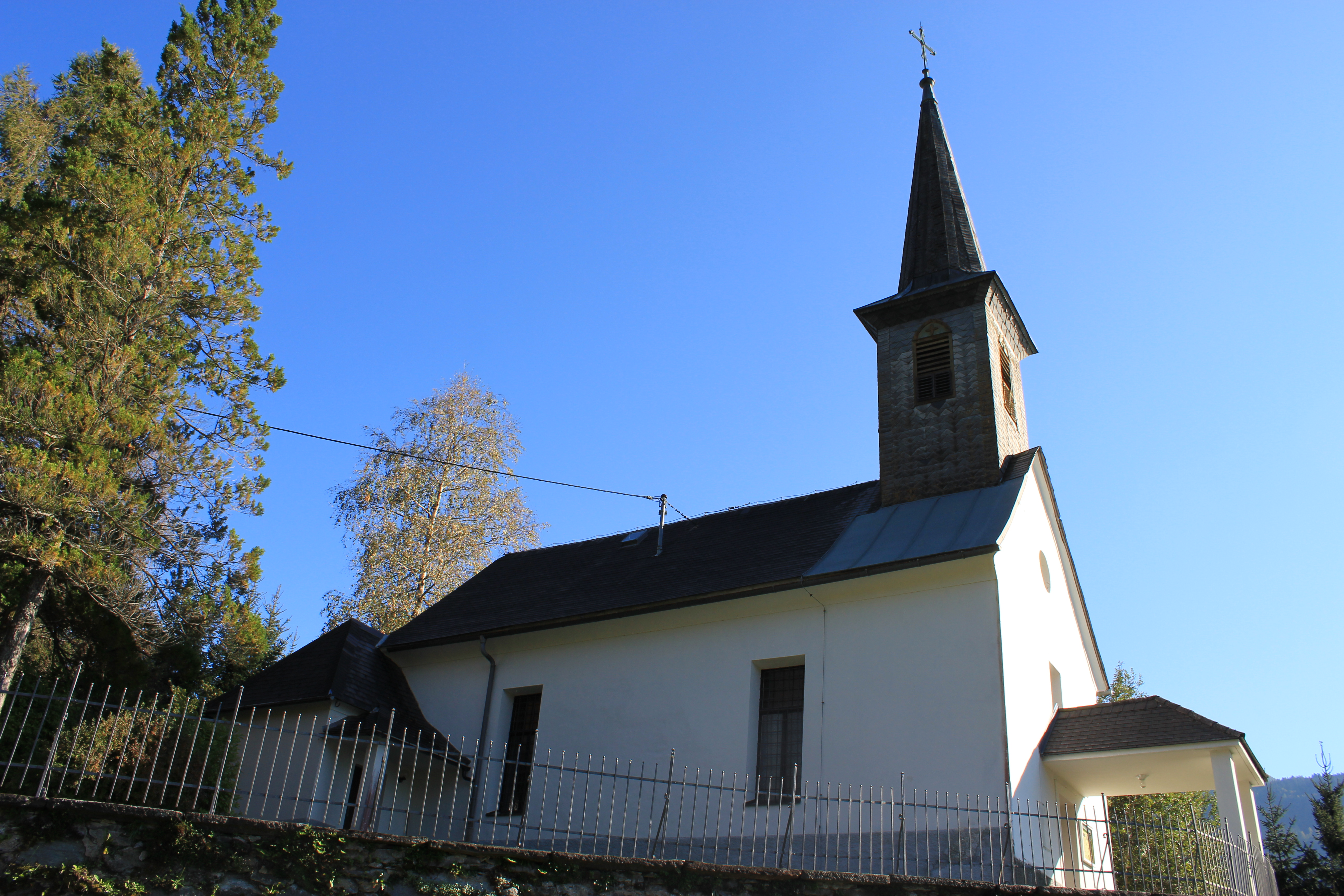 Parish church Saint Magdalene of Mitschig in the community of Hermagor